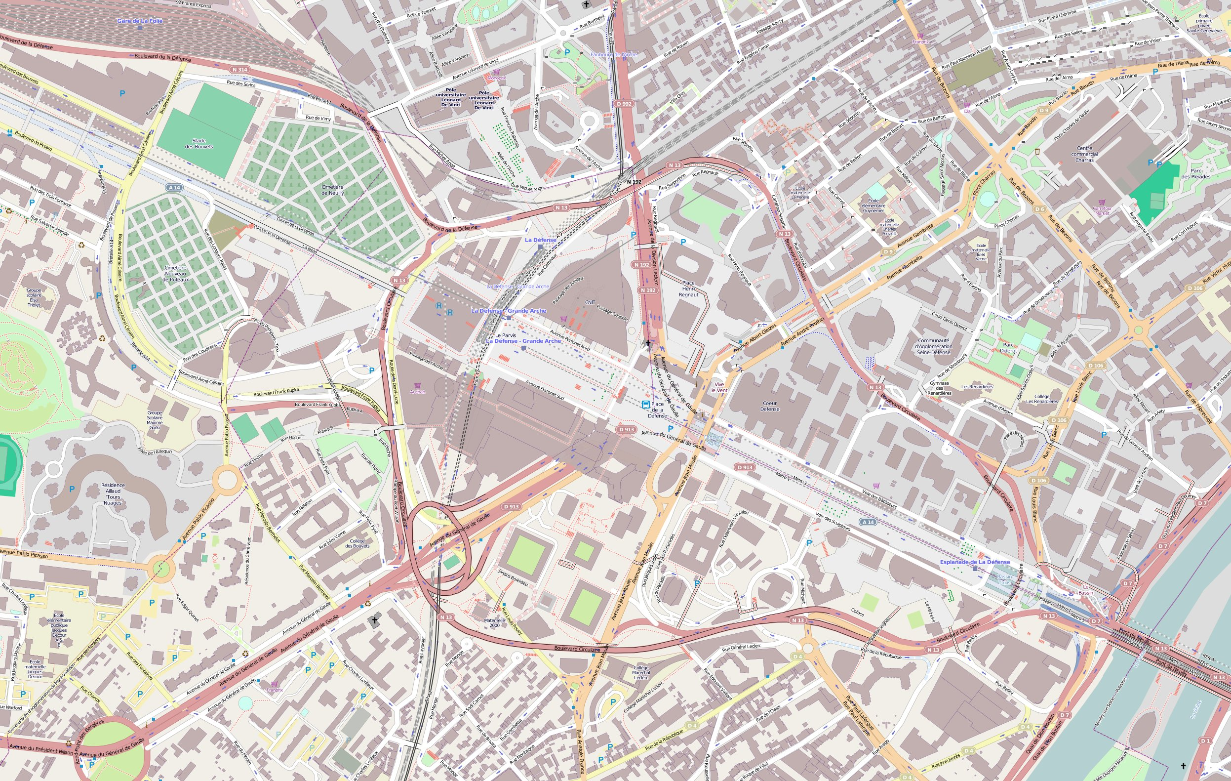 This map of La Défense was created from OpenStreetMap project data, collected by the community. This map may be incomplete, and may contain errors. Don't rely solely on it for navigation.